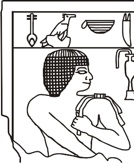 A depiction of Kanefer made by Nephiliskos